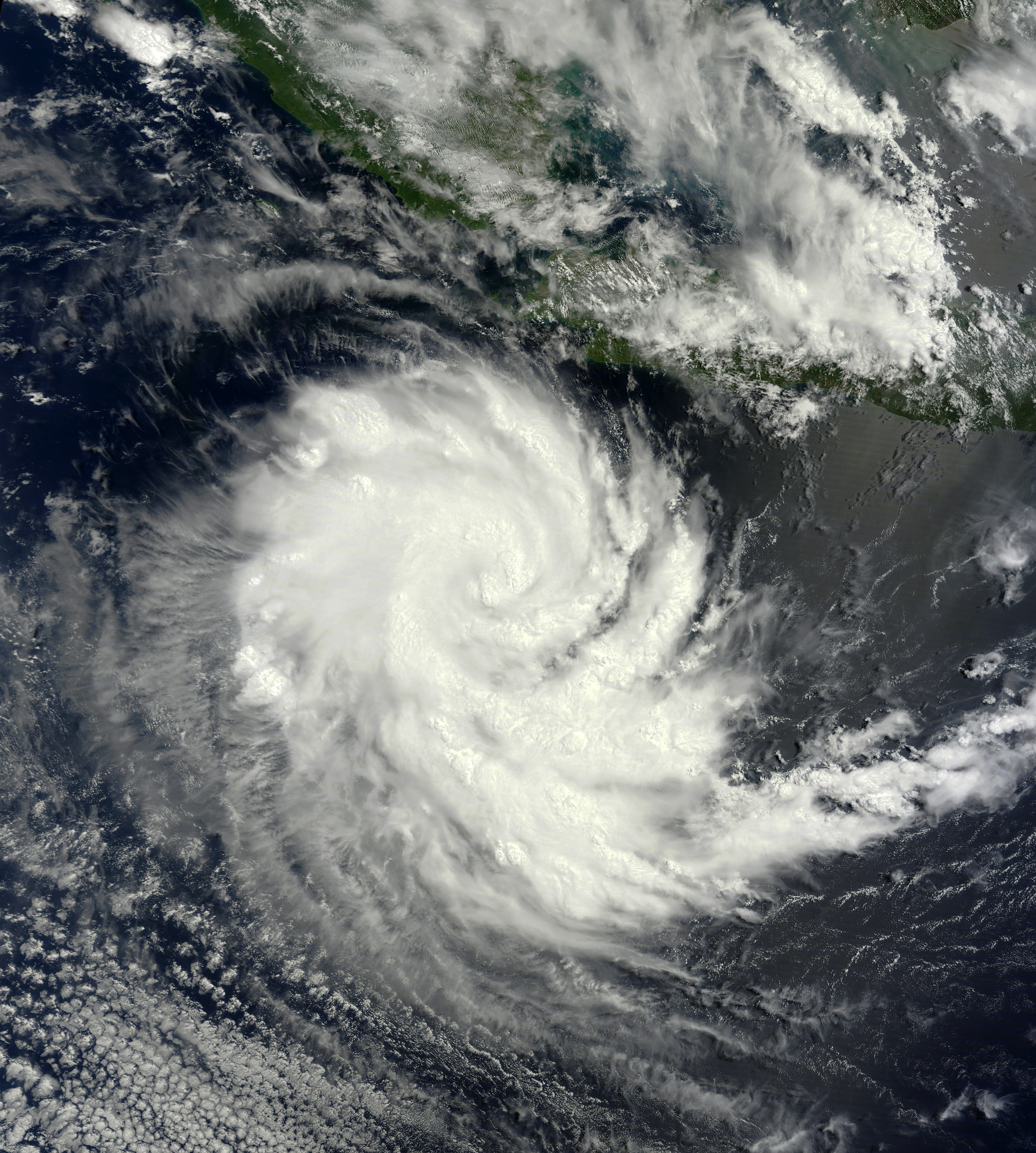 Severe Tropical Cyclone Gillian on March 22, 2014